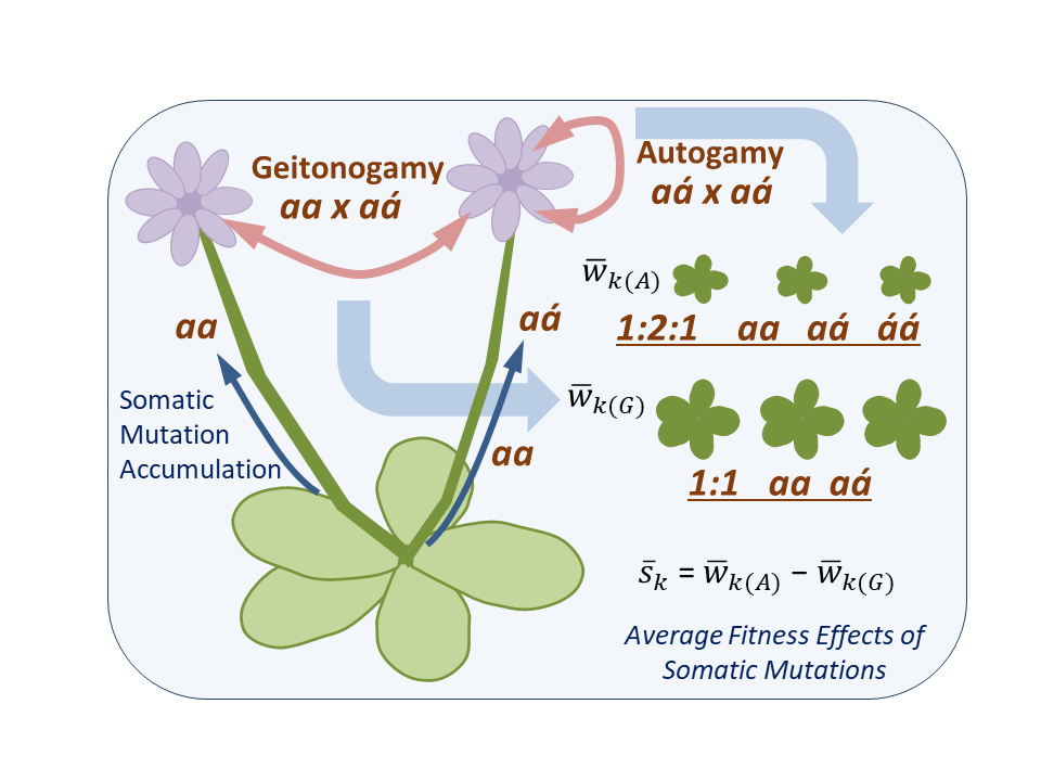 Selfing by autogamy produces offspring that are homozygous for somatic mutations. Comparison to geitonogamous progeny provides a measure of the fitness effects of somatic mutations.